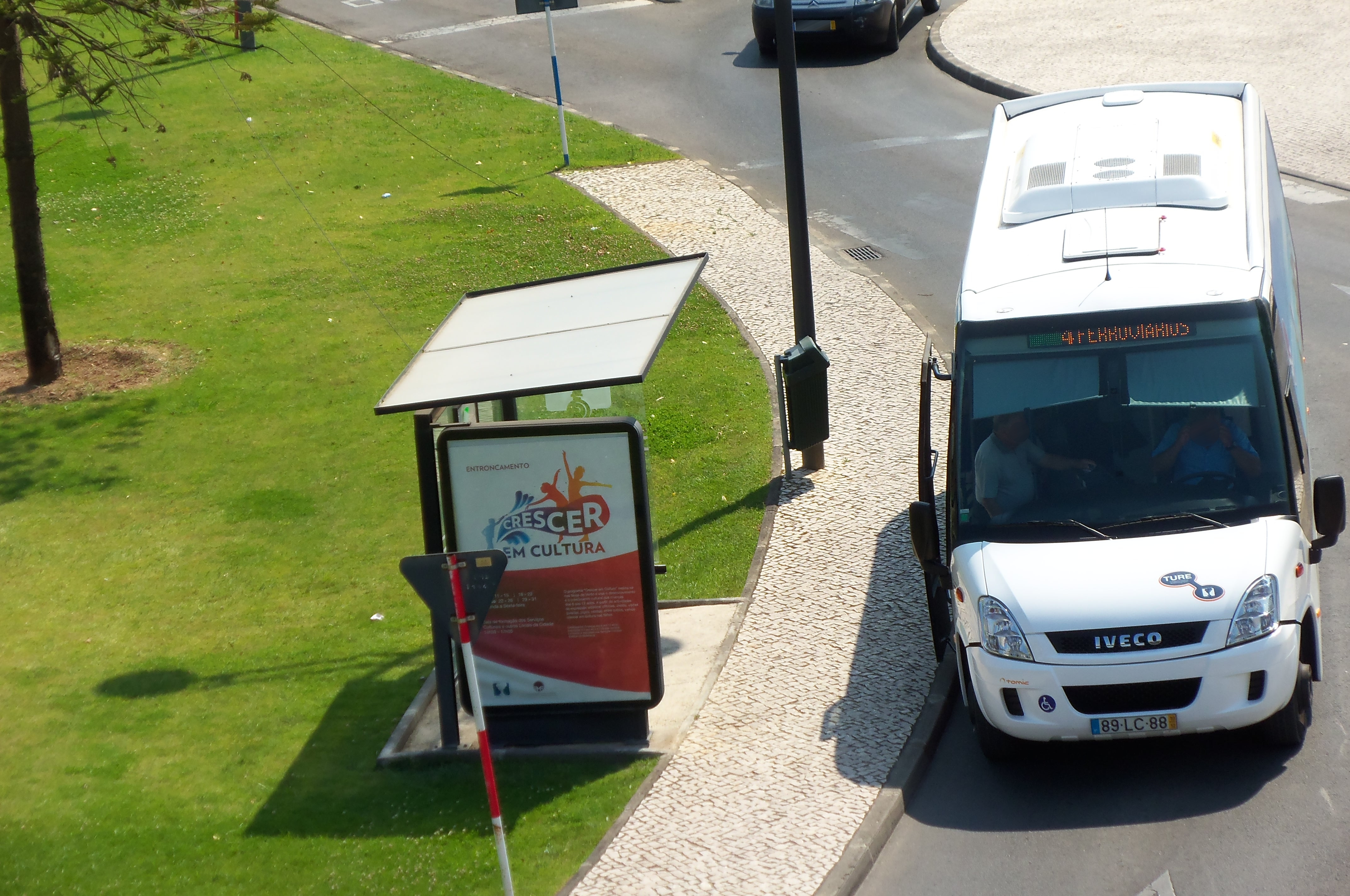 TURE - Urban Transport in Entroncamento